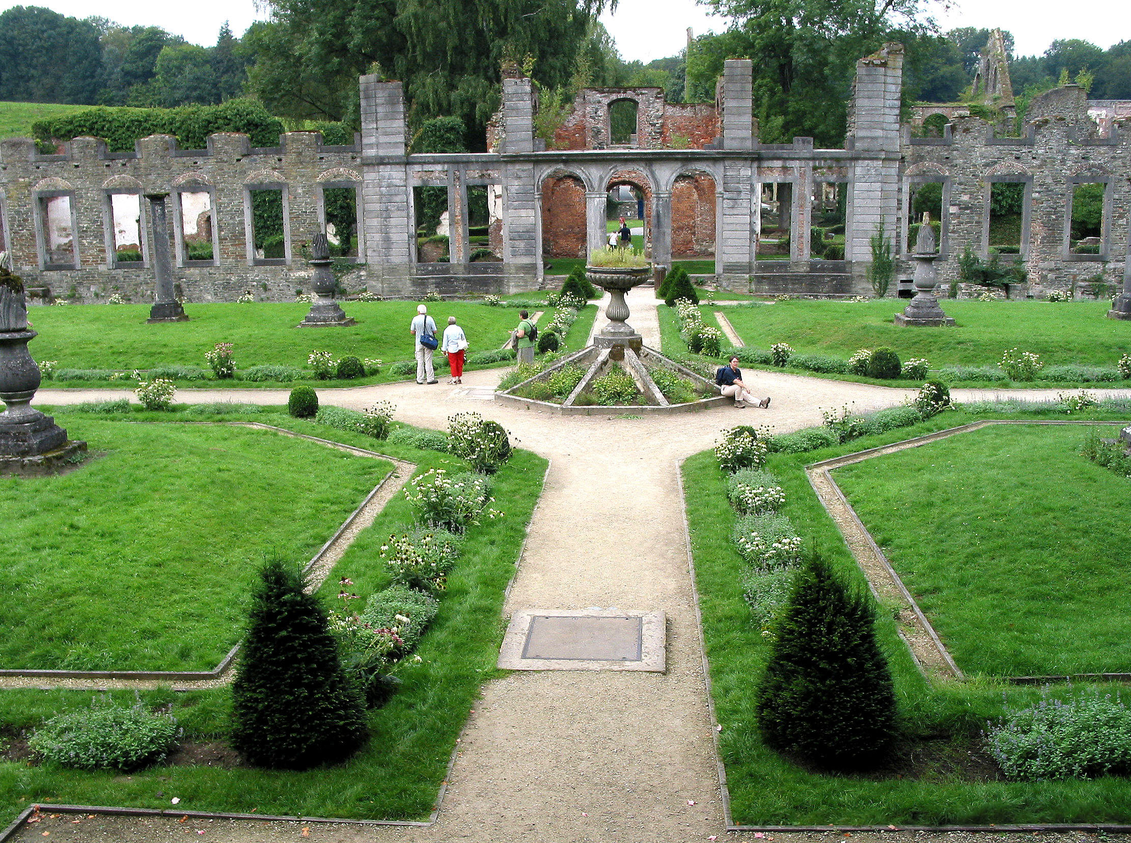 Villers-la-Ville (Belgium), the Abbot's palace gardens (XVIIIth century).